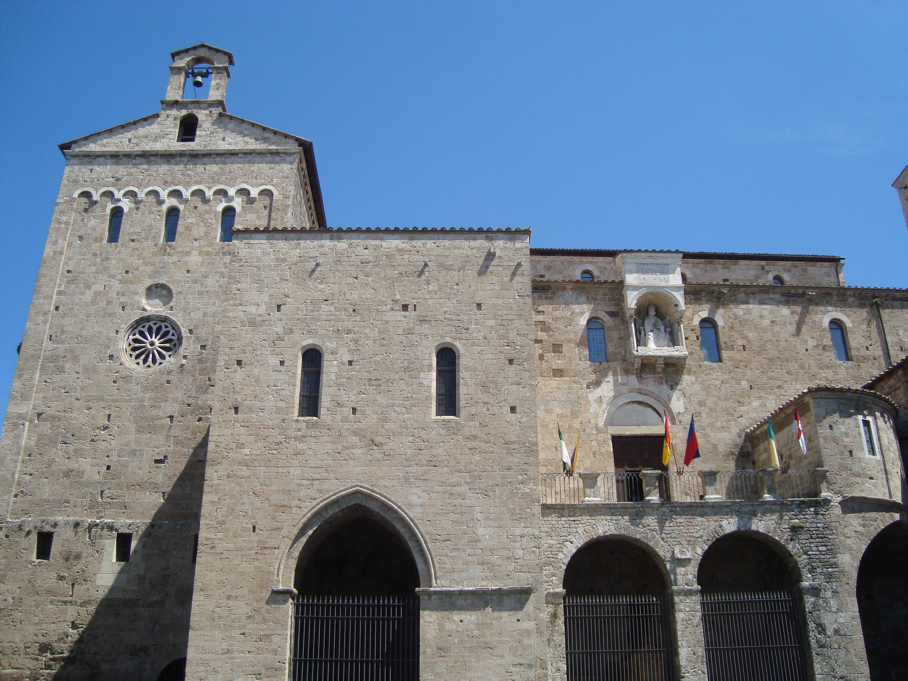 Lateral view of the Cathedral Santa Maria in Anagni